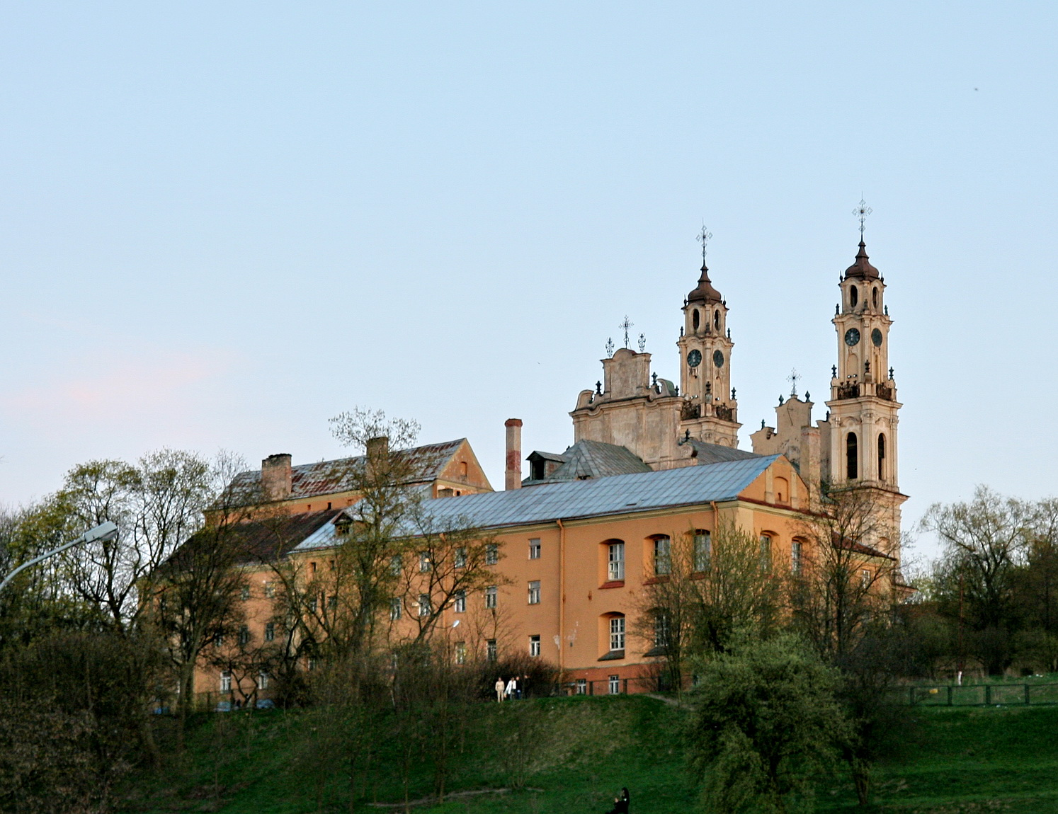 Ascension Church of Vilnius